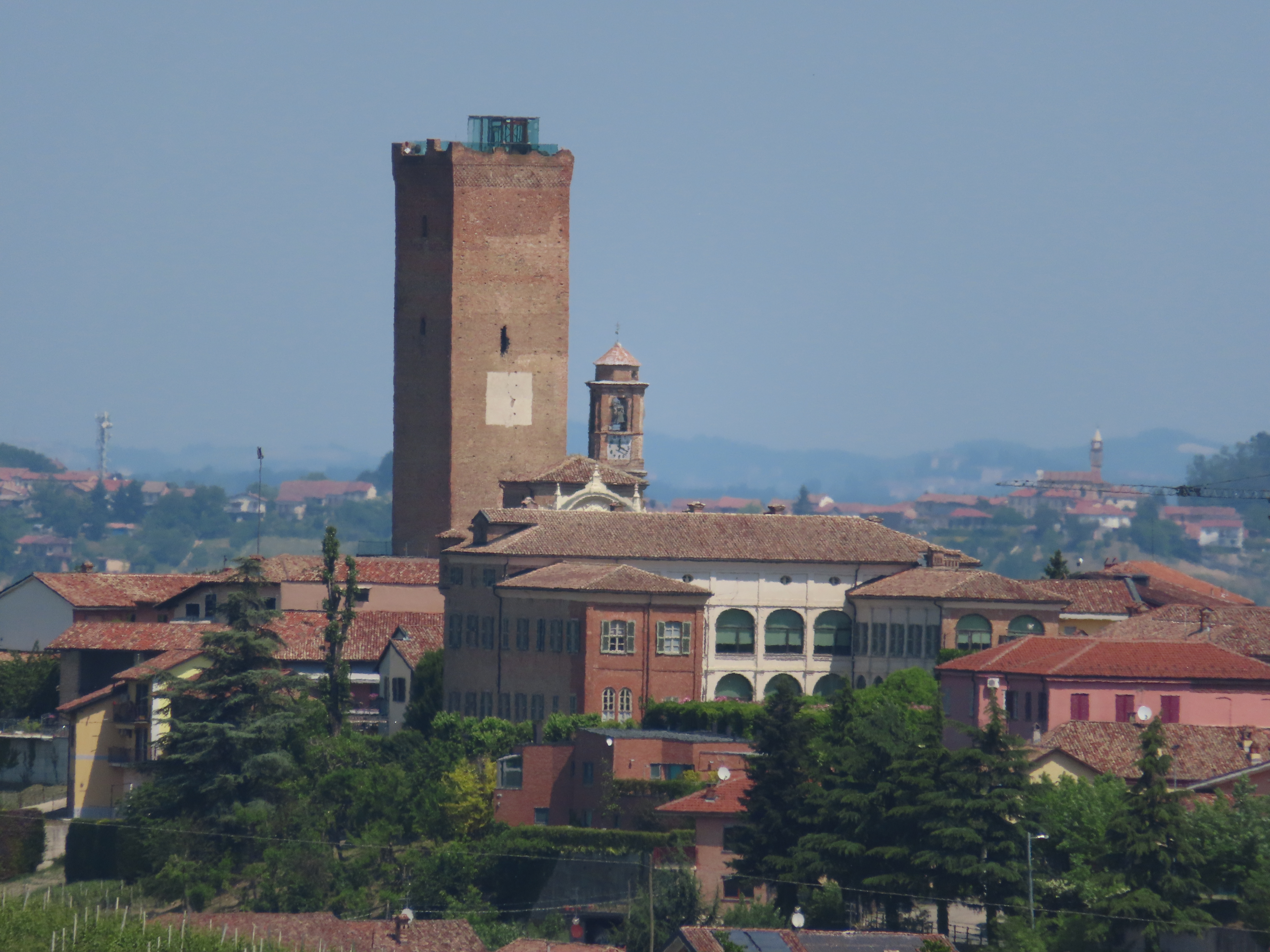 Il centro abitato di Barbaresco, in provincia di Cuneo. In primo piano la chiesa parrocchiale di San Giovanni Battista con il suo campanile e la vicina torre.